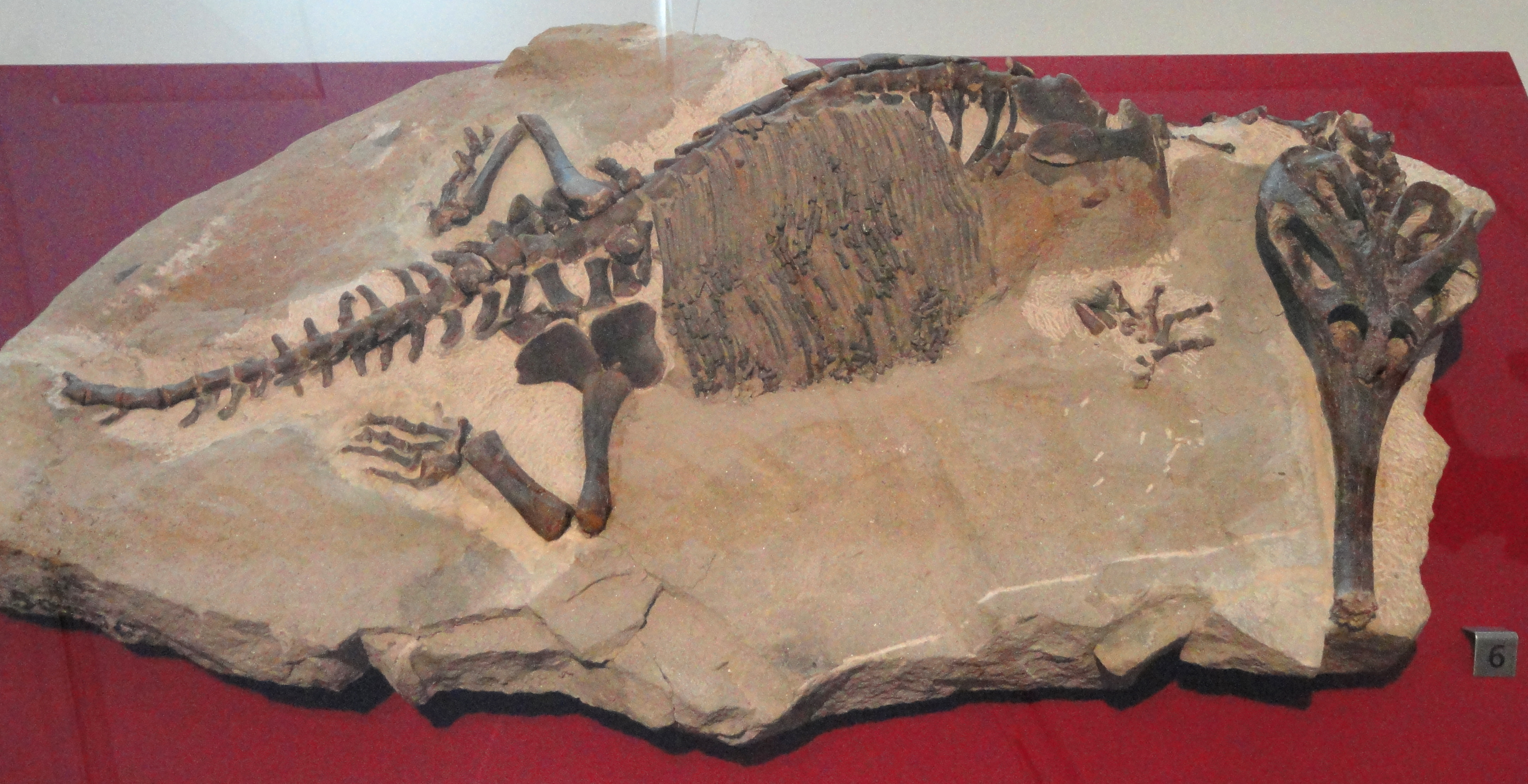 Exhibit in the Royal Ontario Museum, Toronto, Ontario, Canada. This exhibit is old enough so that it is in the public domain, and photography was permitted in the museum. I took this photograph and release it into the public domain.